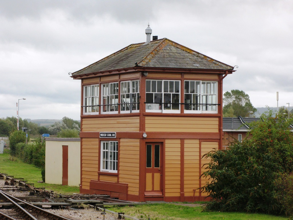 The signal box at Minehead railway station, Somerset, England. This was formerly at Dunster, the next station up the line and was moved as a single unit along the track when it was no longer needed there.